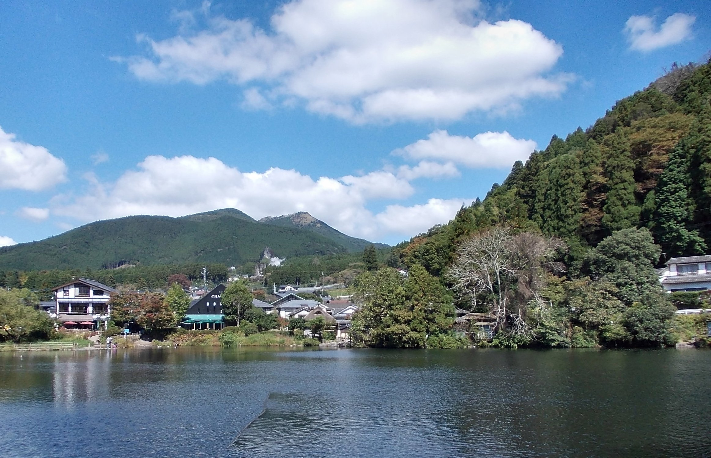 Lake Kinrin, Yufu, Oita, Japan